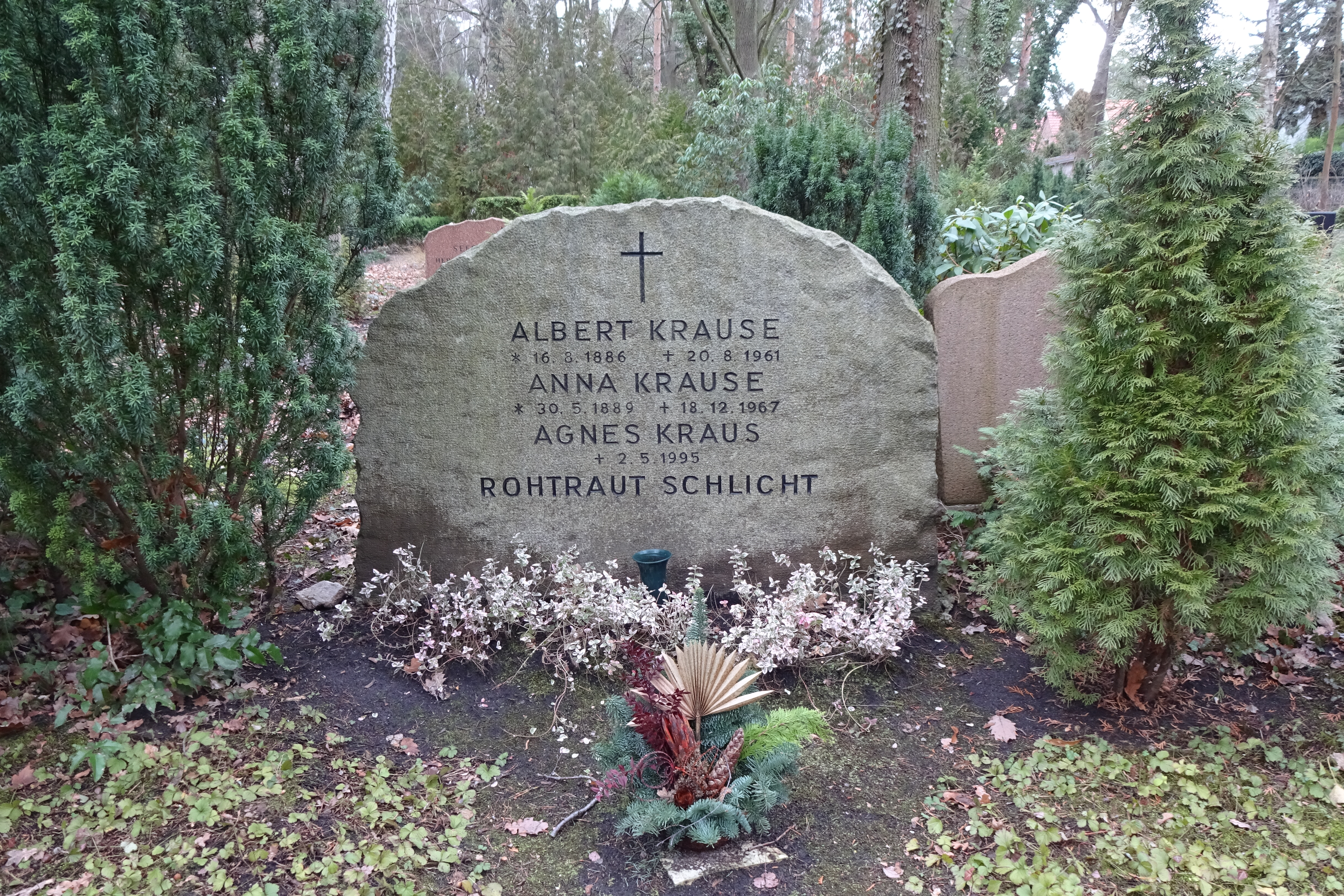 Grave of German actress Agnes Kraus at Waldfriedhof Kleinmachnow, (Kleinmachnow near Berlin)